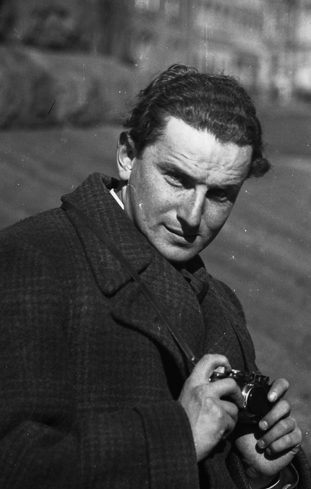 Portrait of the photographer Ze'ev Aleksandrowicz, taken in Krakow during the 1930's, original creator unknown. The portrait was found by me, Aleksandrowicz's grandson, among his belongings after his death.